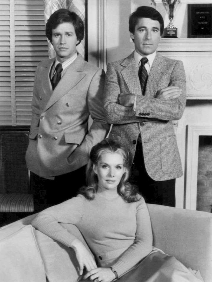 Pictured (l. to r.): Philip MacHale as Tony Lord, Jacqueline Courtney as Pat Ashley, and Tom Fuccello as Paul Kendall from the daytime drama One Life to Live.